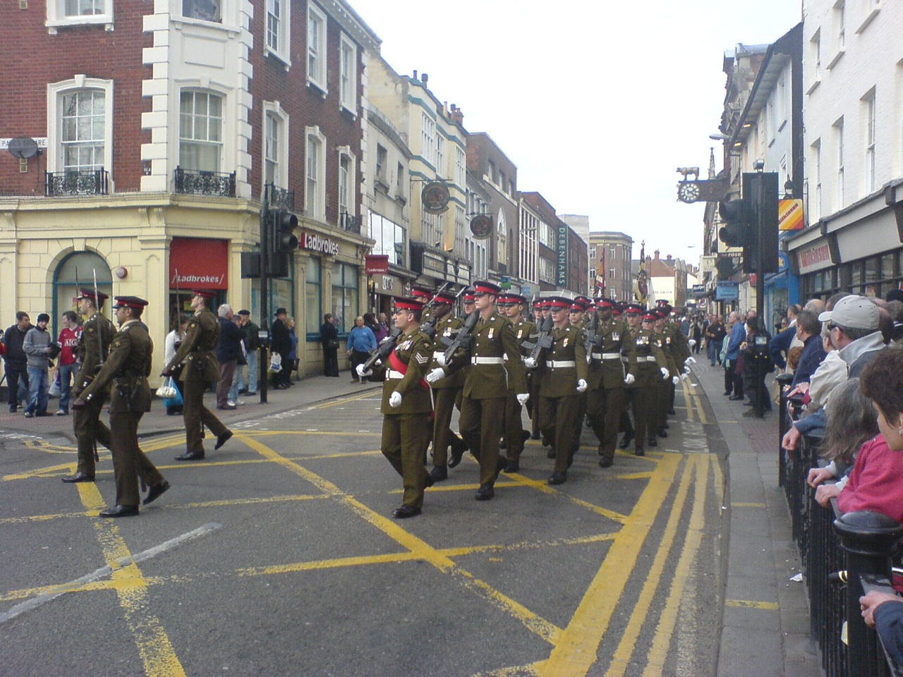 120 soldiers from the Royal Anglian Regiment follow. In 1980, they were given the freedom of the borough giving them the right to march with colours flying and bayonets fixed. Today, they exercised their right.